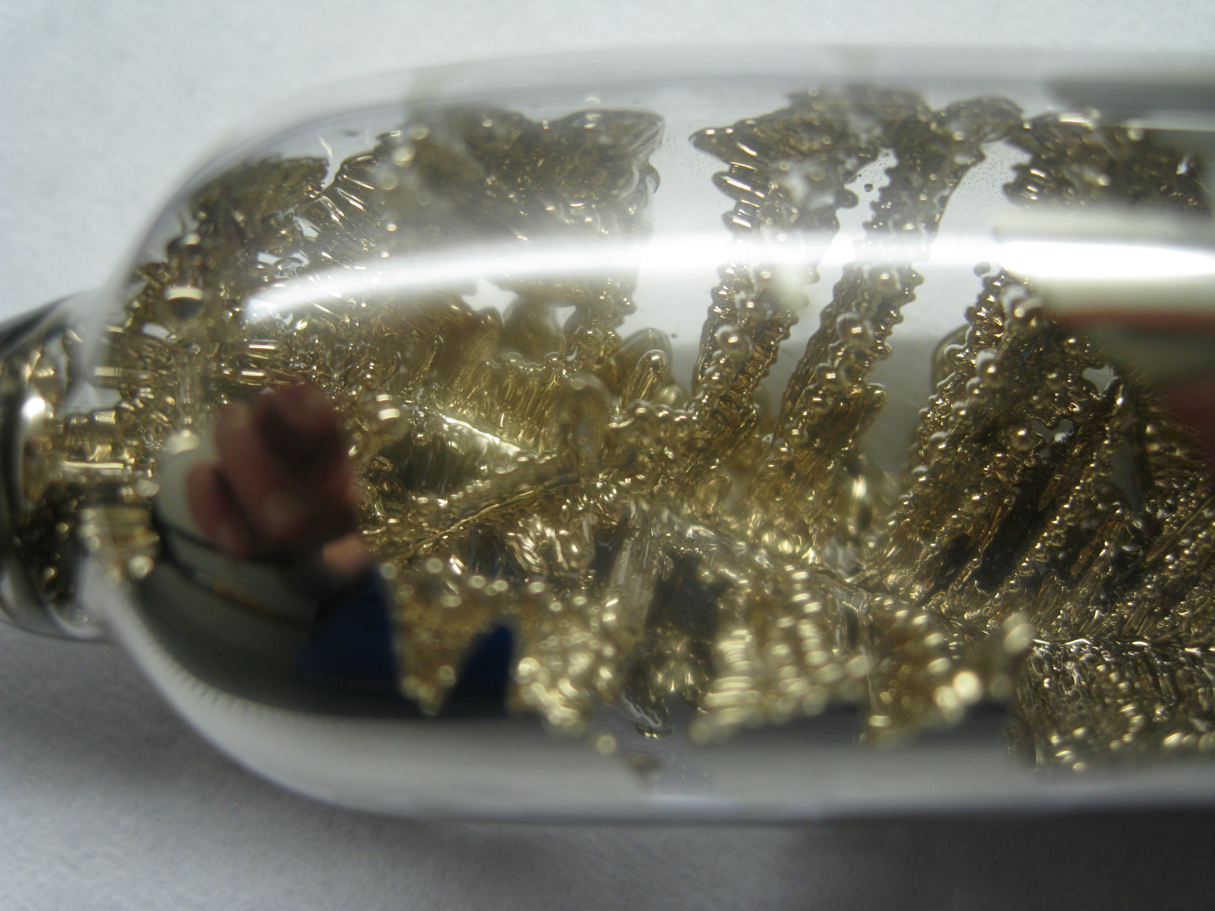 Cesium/Caesium metal crystals in ampoule from the Dennis s.k collection.